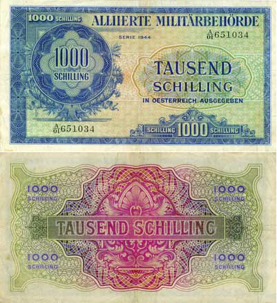 1000 Schilling Allied Military Currency